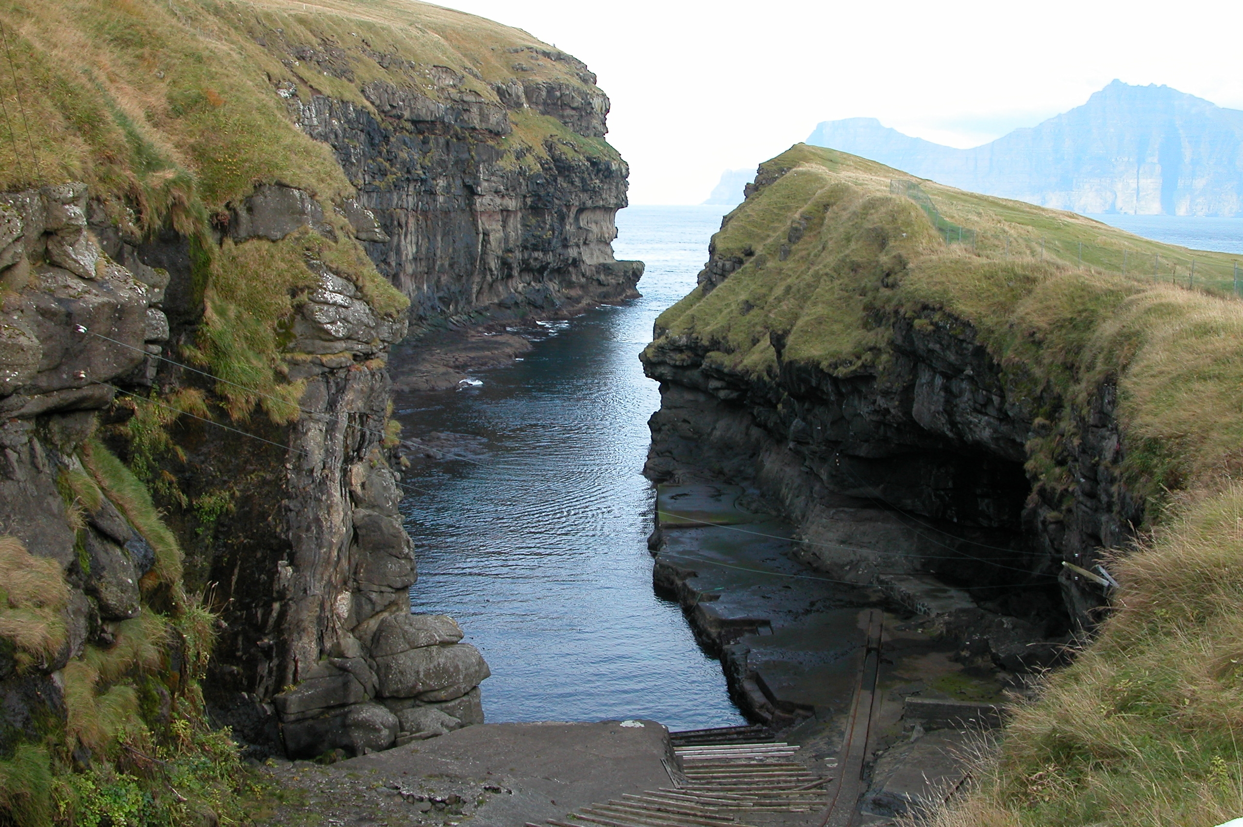 Cleft of Gjógv in Eysturoy, Faroe Islands.